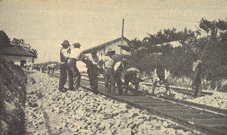 Track laying works, during the duplication of the Minho Railway between the stations of Contumil and Ermesinde, in Portugal. This photograph was published in the Gazeta dos Caminhos de Ferro magazine No. 1124, of 16th October 1934, and scanned by the Hemeroteca Municipal de Lisboa.